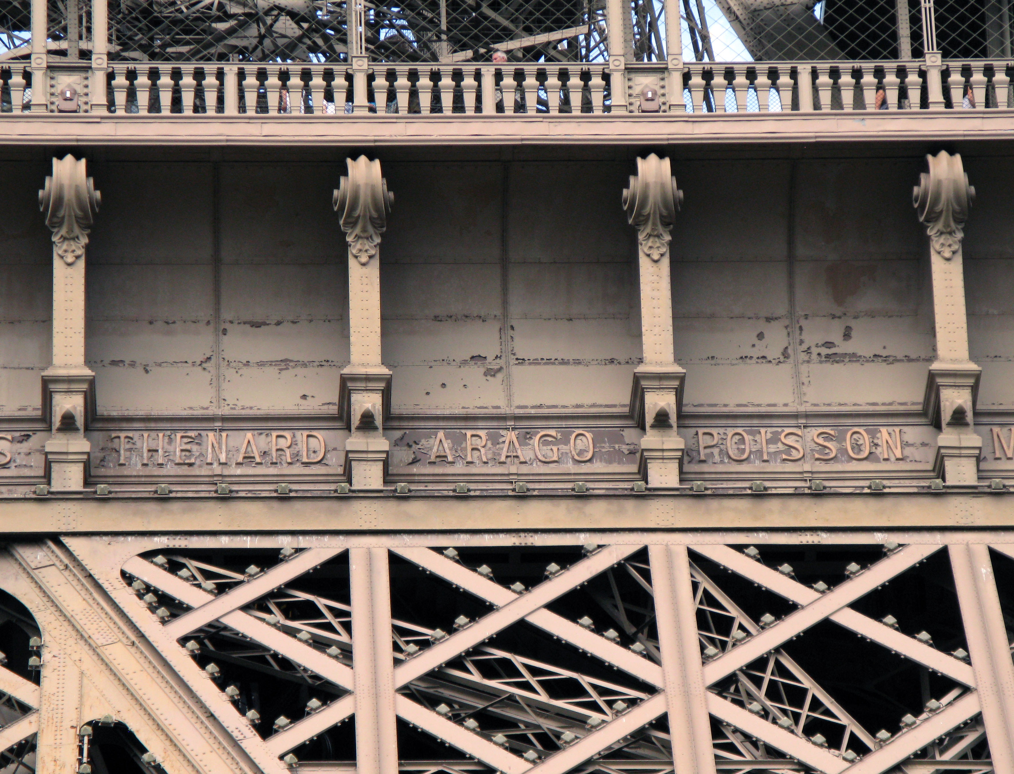 Thénard, Arago and Poisson named on the Eiffel Tower